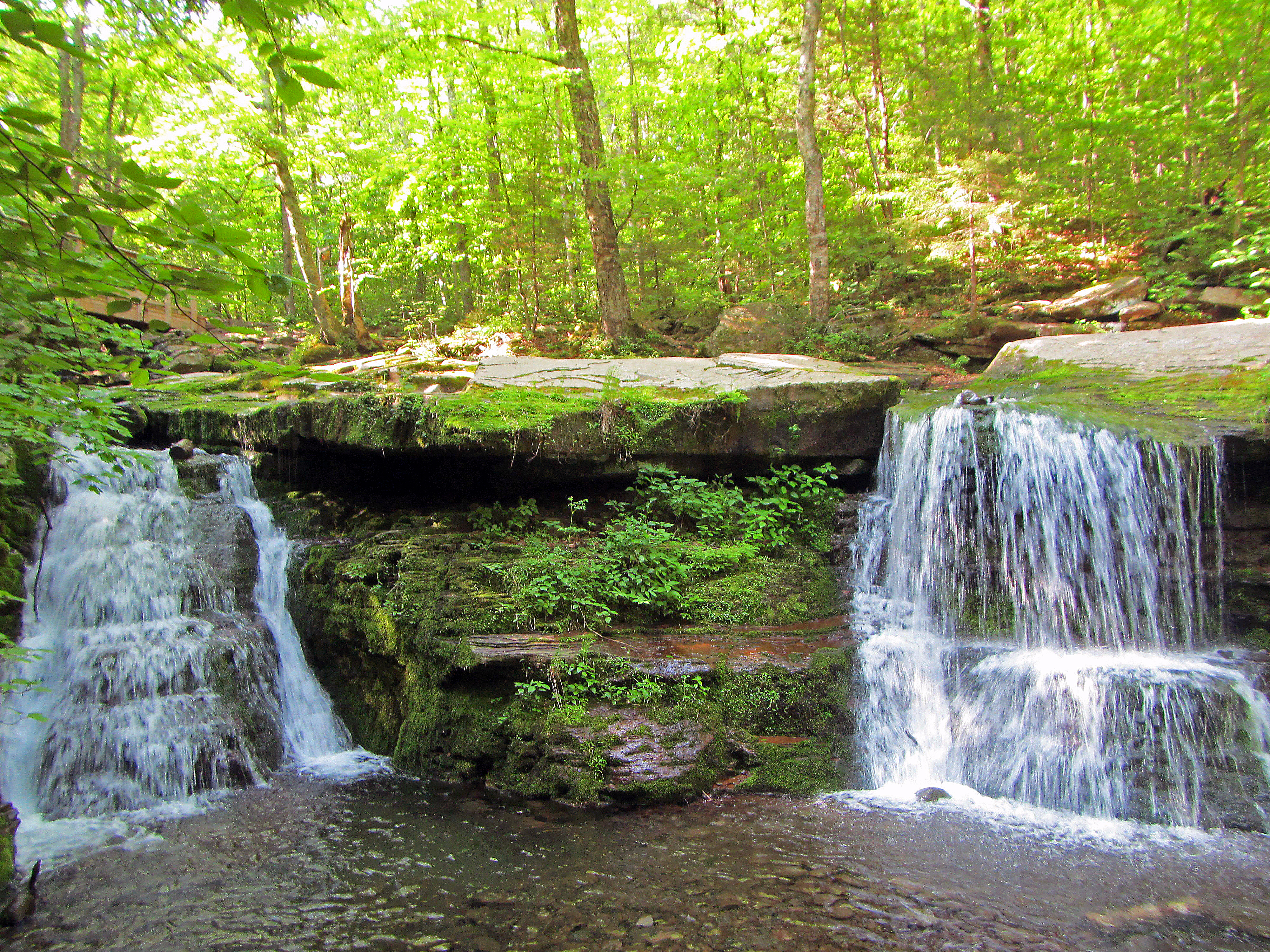 Diamond Notch Falls, on the headwaters of the West Kill in the Catskill Park Forest Preserve's West Kill Wilderness Area, Lexington, NY, USA